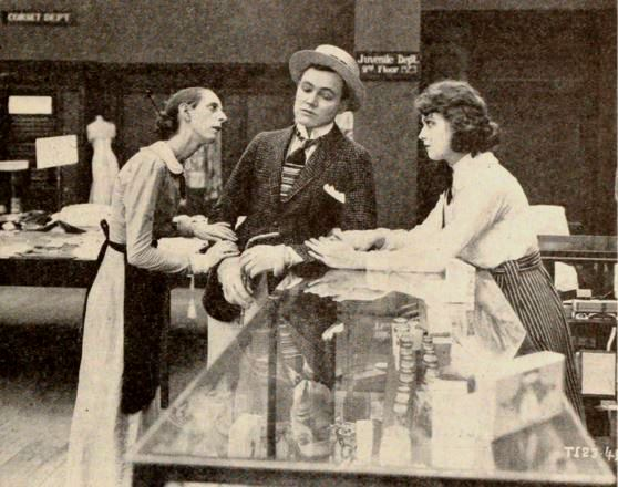 Still from the American comedy film A Nine O'Clock Town (1918) with Caroline Rankin, Charles Ray, and Jane Novak, on page 29 of the August 17, 1918 Exhibitors Herald.